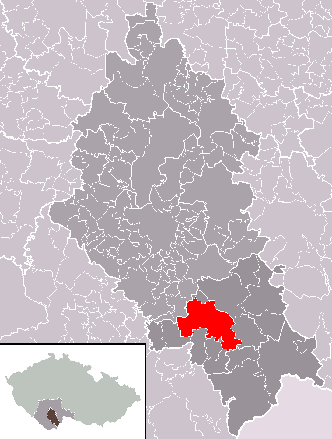 Location of Trhové Sviny town within České Budějovice District and administrative area of Trhové Sviny as a Municipality with Extended Competence.